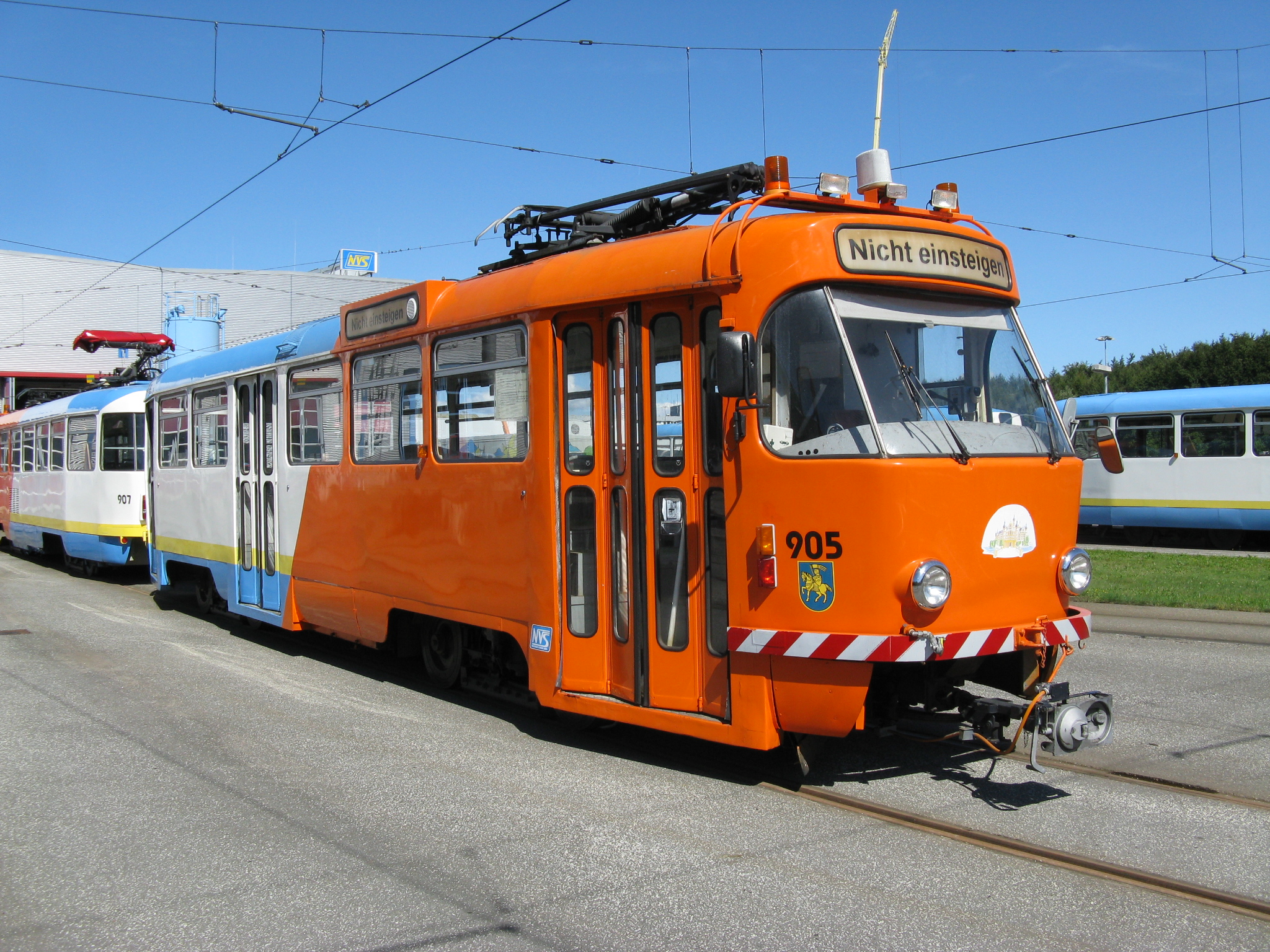 Public transport Schwerin, Depot Haselholz, Schwerin, Germany Tatra construction tram